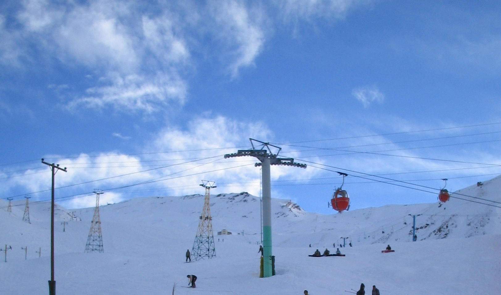 A view of the slopes in Dizin, Iran